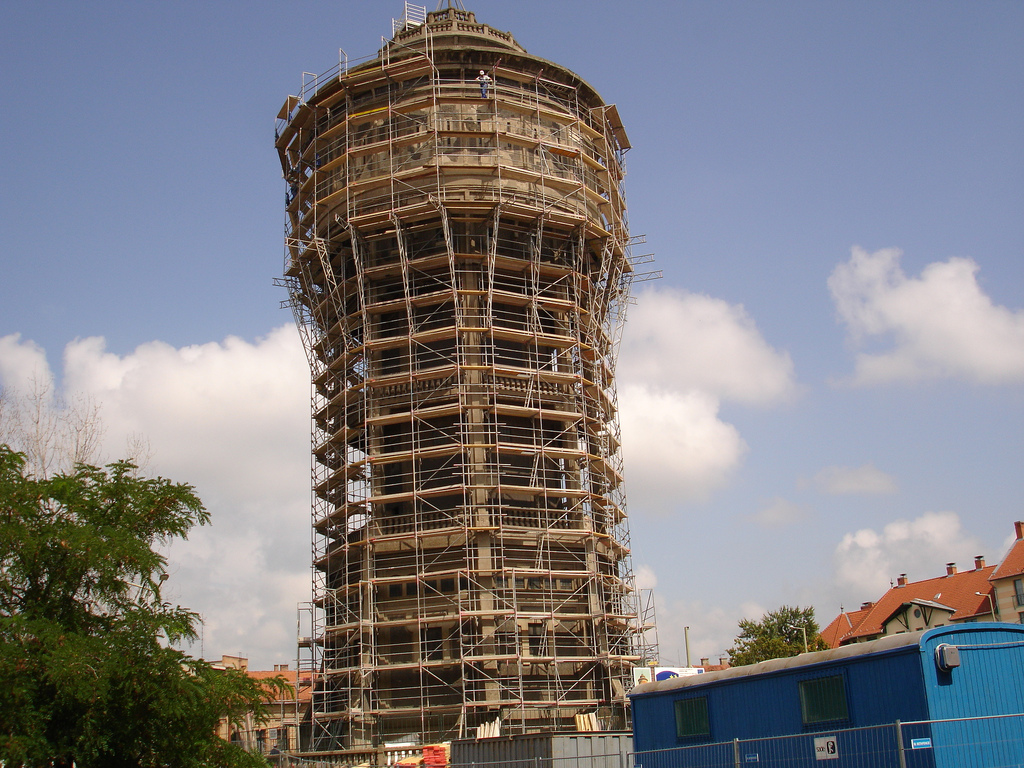 Szilárd Zielinski